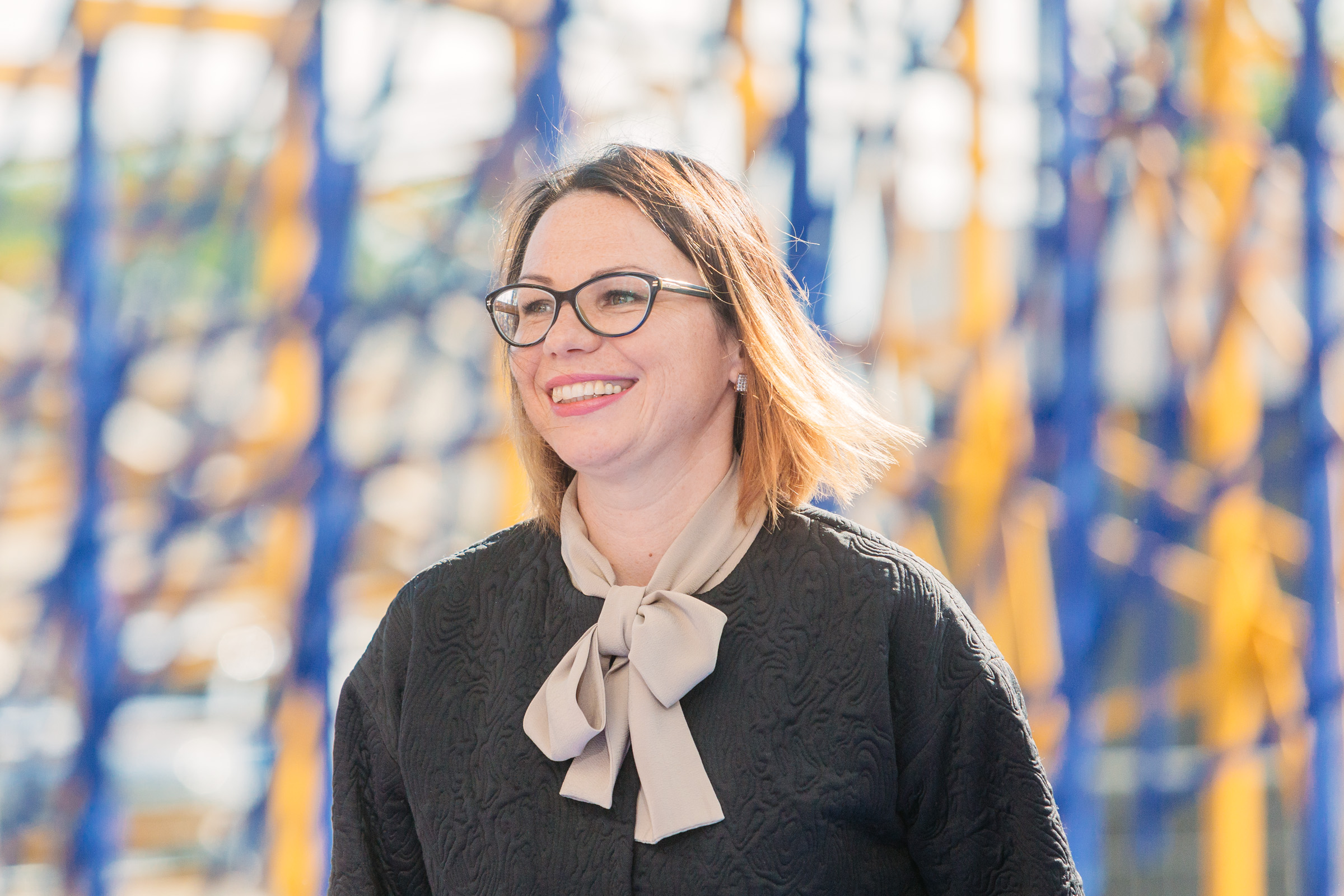 Egle Radisauskiene, Vice Minister, Ministry of Social Security and Labour, Lithuania Photo: Arno Mikkor (EU2017EE)